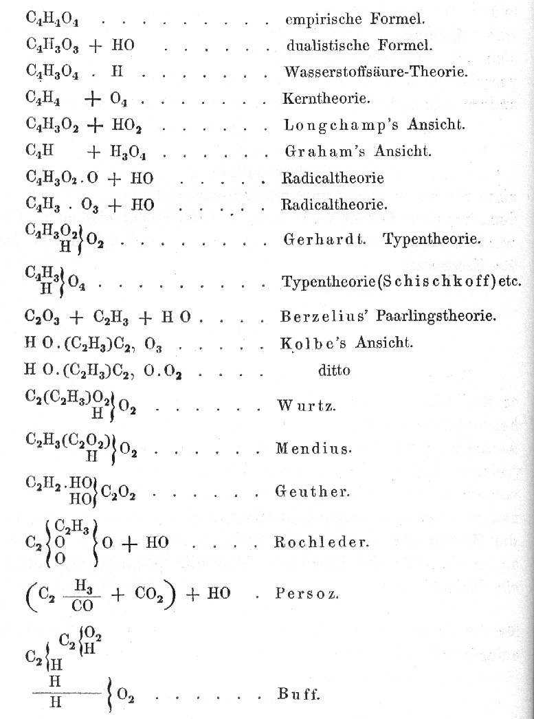 Figure showing acetic acid formulas, scanned by me from an old chemistry book